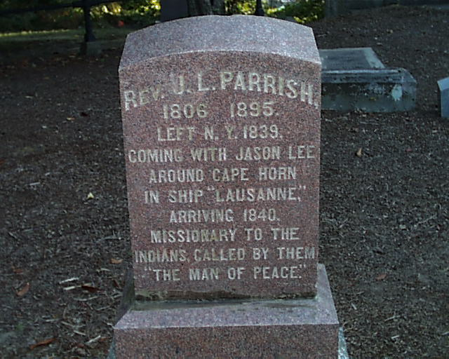 J.L. Parrish grave at Lee Mission Cemetery, Salem, Oregon